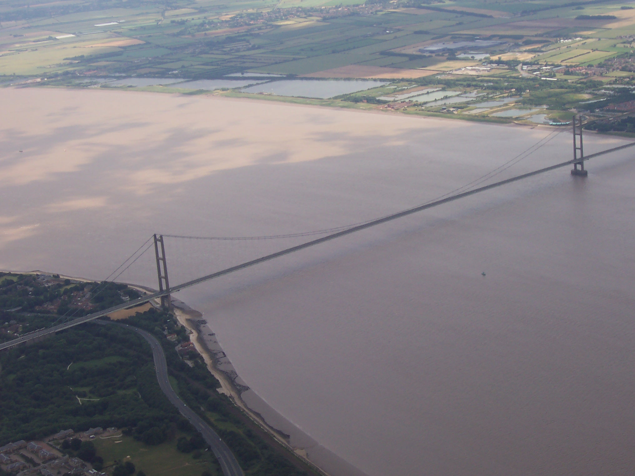 An aerial view of the Humber Bridge, England, from around 2000 feet. The A63 can be seen running along the north bank of the river in the bottom left of the picture.